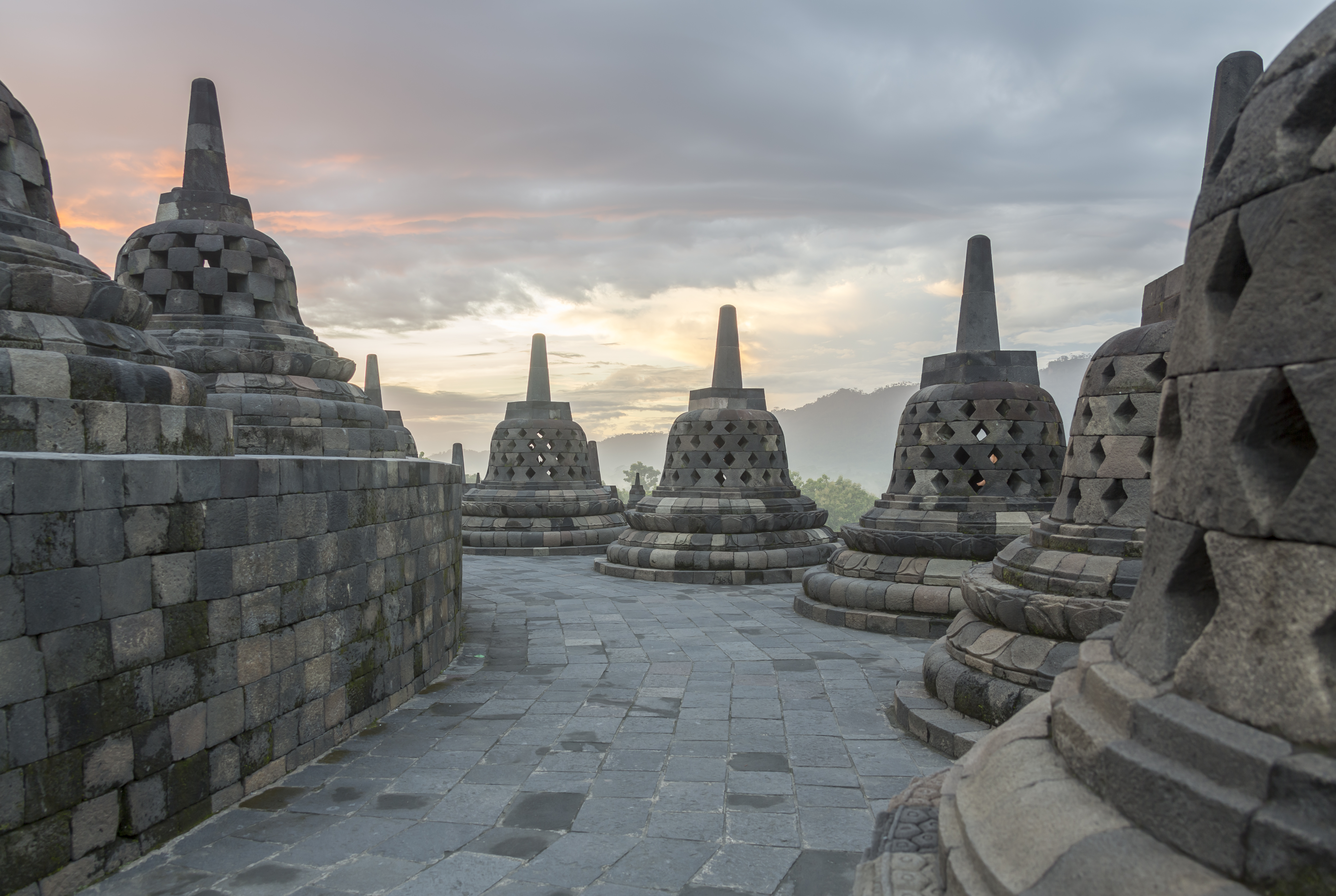 Borobudur temple Park, Indonesia: Early morning atmosphere in Borobudu Temple Park.